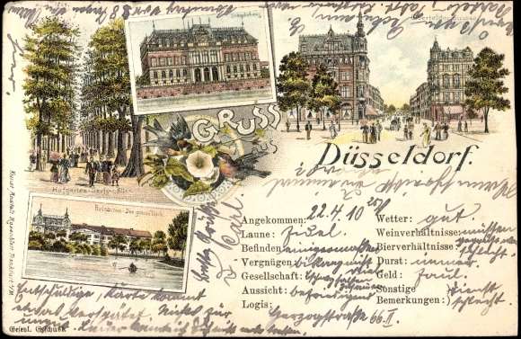 Düsseldorf, Hofgartenstraße, Alleestraße mit Blick in Elberfelder Straße, Postkarte_22._April_1910.jpg